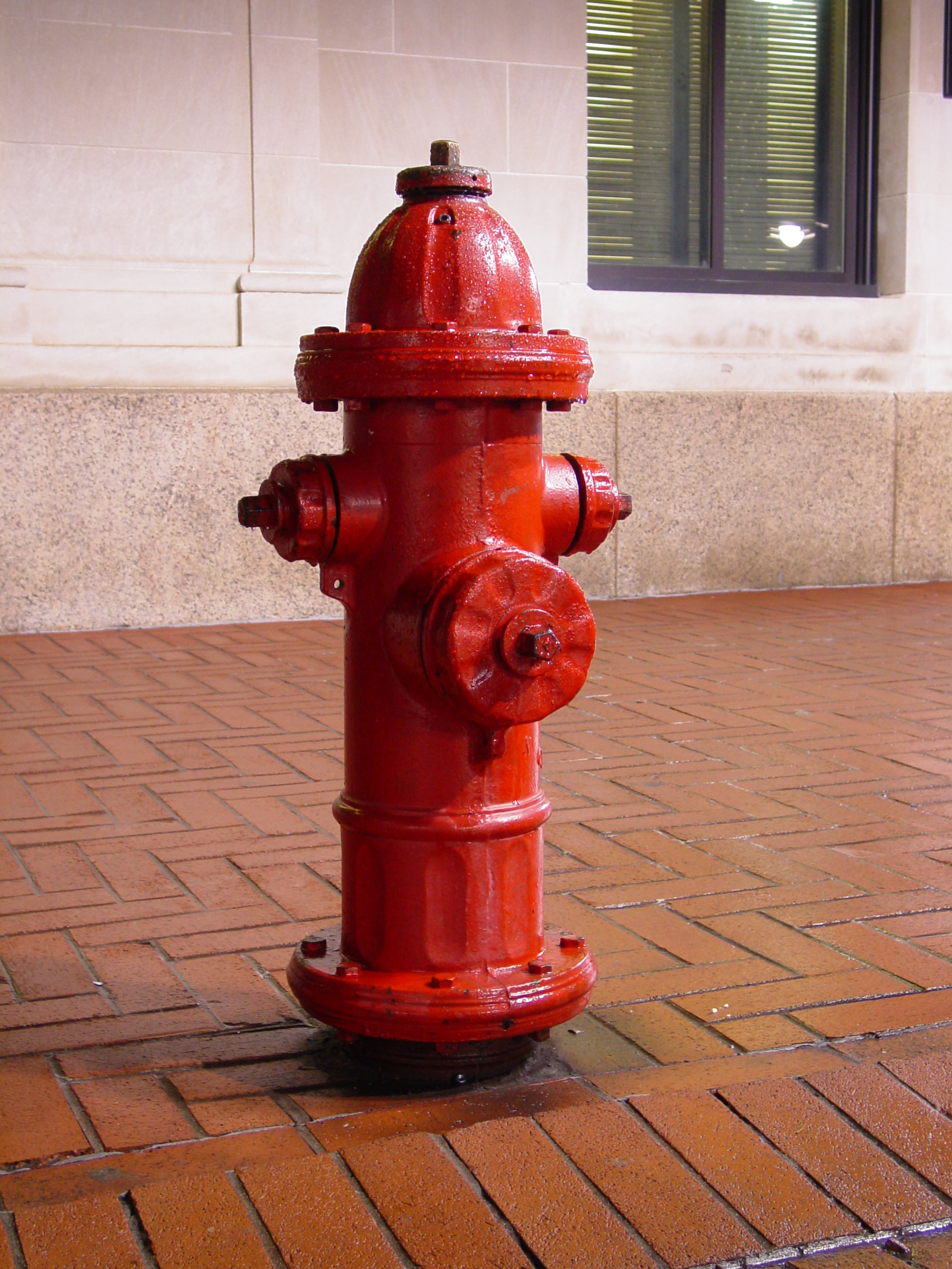 Fire hydrant on the Downtown Mall in Charlottesville, Virginia. see also Meuller Water Products